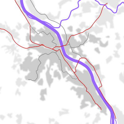 Local traffic plan of the city of Bonn: Projected network of the Bonn light rail (urban railway) including existence, priority and future demands.